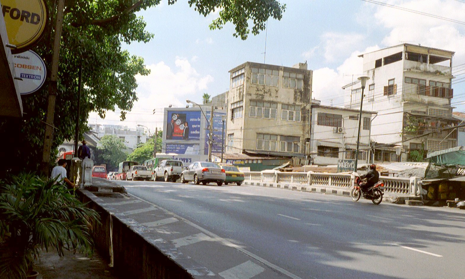 Saphan Damrong Sathit, bridge Charoen Krung Road over Khlong Ong Ang, Bangkok, Thailand